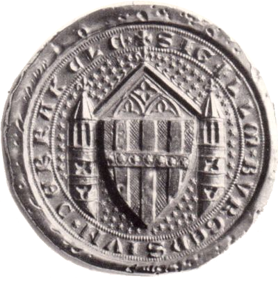 seal of the city of Brakel, Germany, from the year 1316